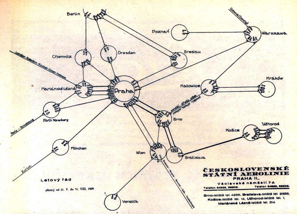 Map of the network of flights operated by CSA in summer 1929 (1929-05-21 - 1929-08-31)